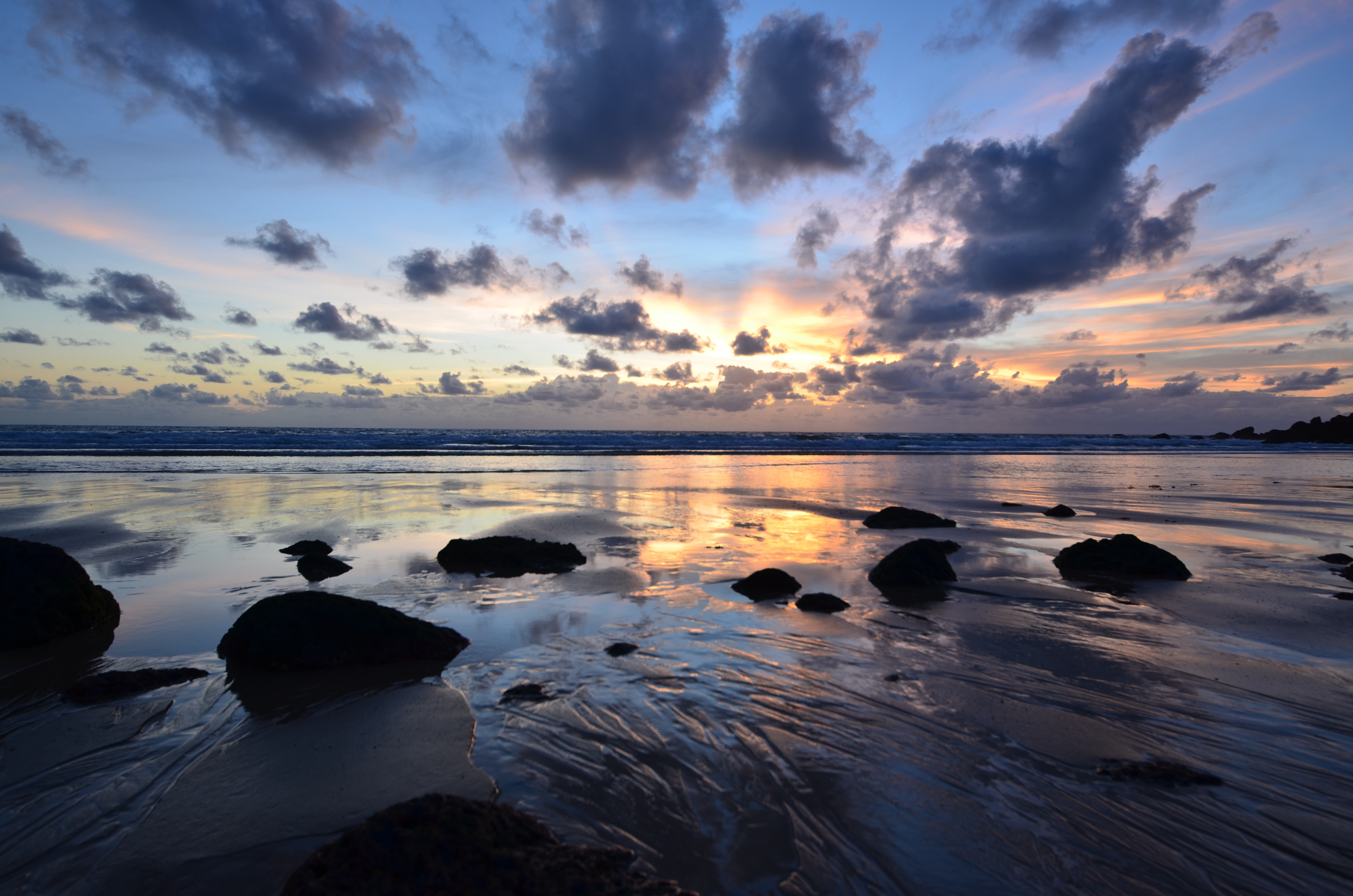 Nhumuy, East Arnhem Land, Northern Territory - Photo contributed with permission of Dhimurru Aboriginal Corporation